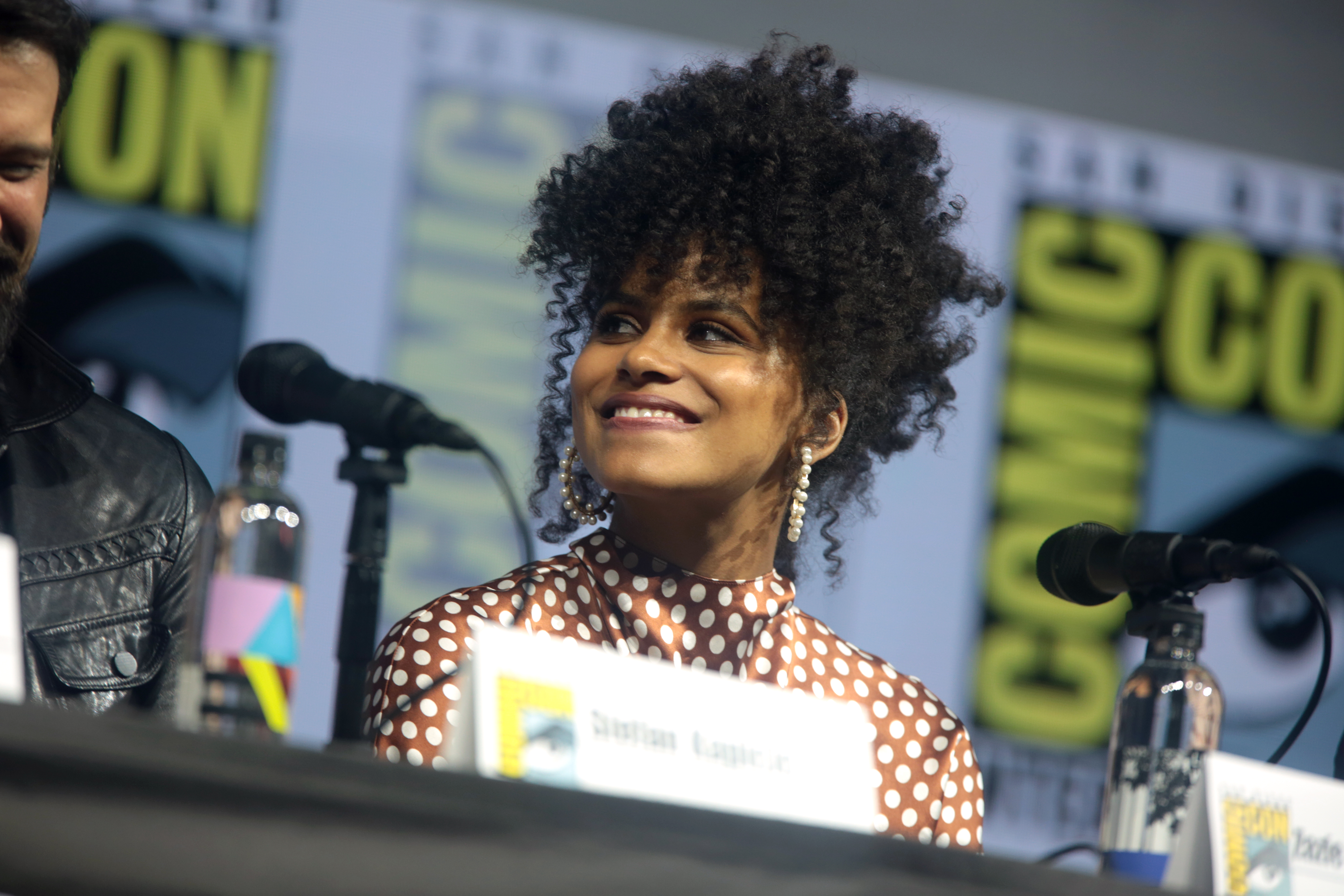 Zazie Beetz speaking at the 2018 San Diego Comic Con International, for "Deadpool 2", at the San Diego Convention Center in San Diego, California.